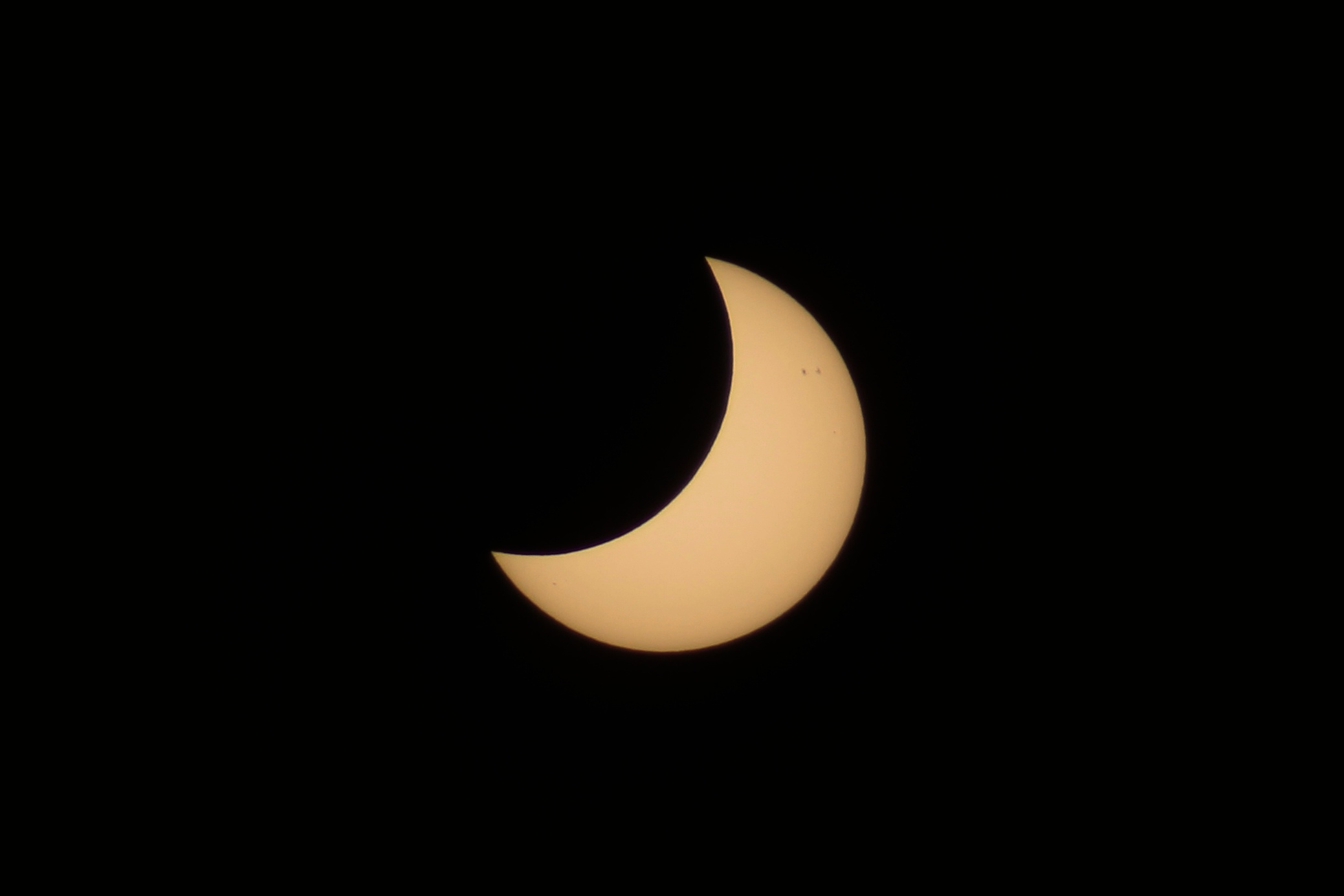 Partial Solar Eclipse April 29th 2014, seen from Adelaide